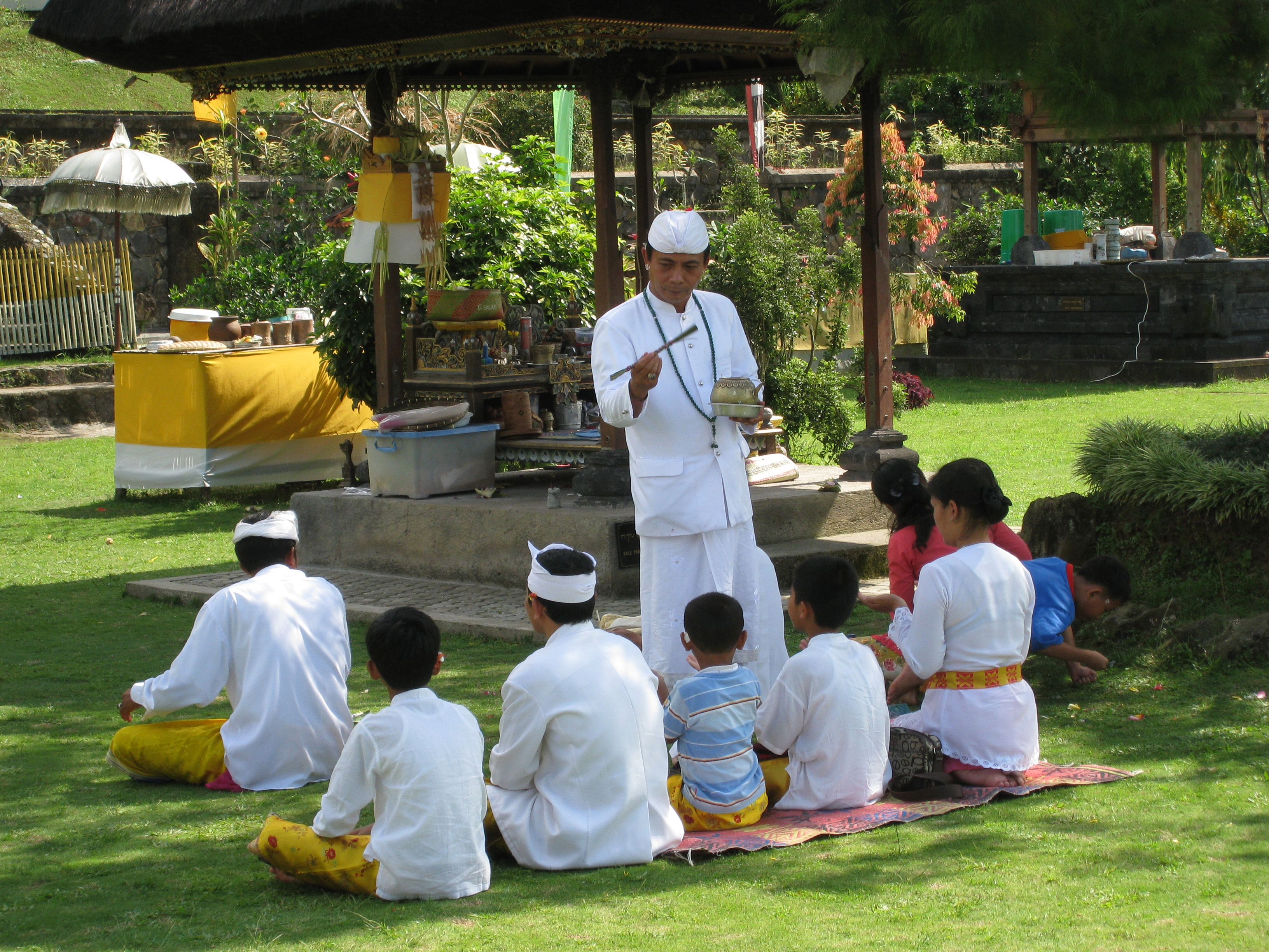 Hindu devotees and priest performing praying in Pura Parahyangan Agung Jagatkarta. A Nusantara Hindu temple on northern slope of Mount Salak in Bogor Regency, West Java, Indonesia.